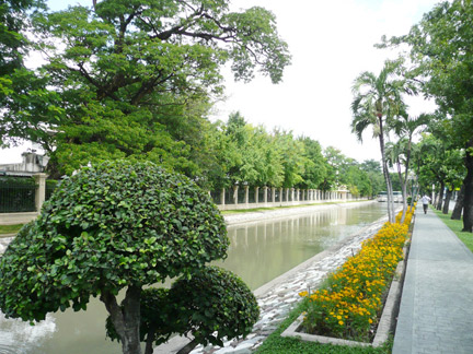 Chitrlada Palace - I took the photo